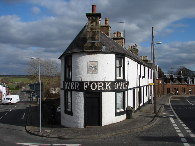 Ochiltree, East Ayrshire; "Over Fork Over" refers to the motto of the Clan Cunningham. The row of buildings on Burnock Street of which its forms part is Category B listed.